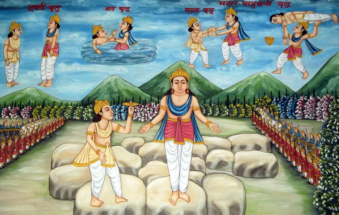 Bharat - Bahubali Fight (Photo:Jain temple, Tijara